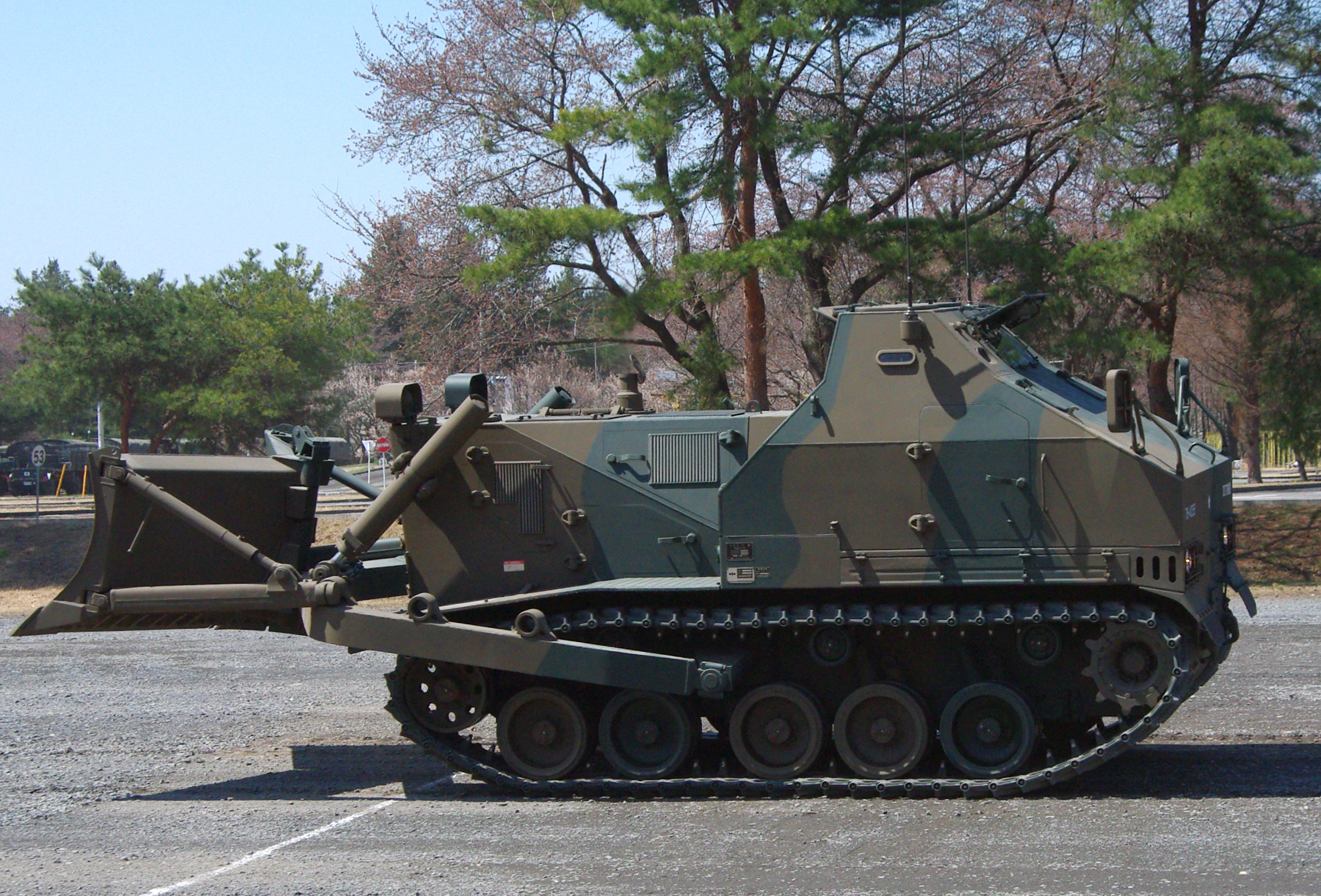 JGSDF Type 75 dozer,307th engineer company.Taken by Los688,in Camp Utsunomiya,Japan,at 08-Apr-2012.PD-self ja:75式ドーザ 第307施設隊 2012年04月08日、宇都宮駐屯地で撮影。